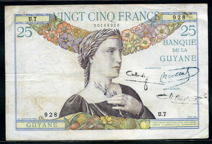 French Guiana 25 Francs 1933-1945